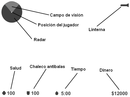 Counter-Strike's interface.